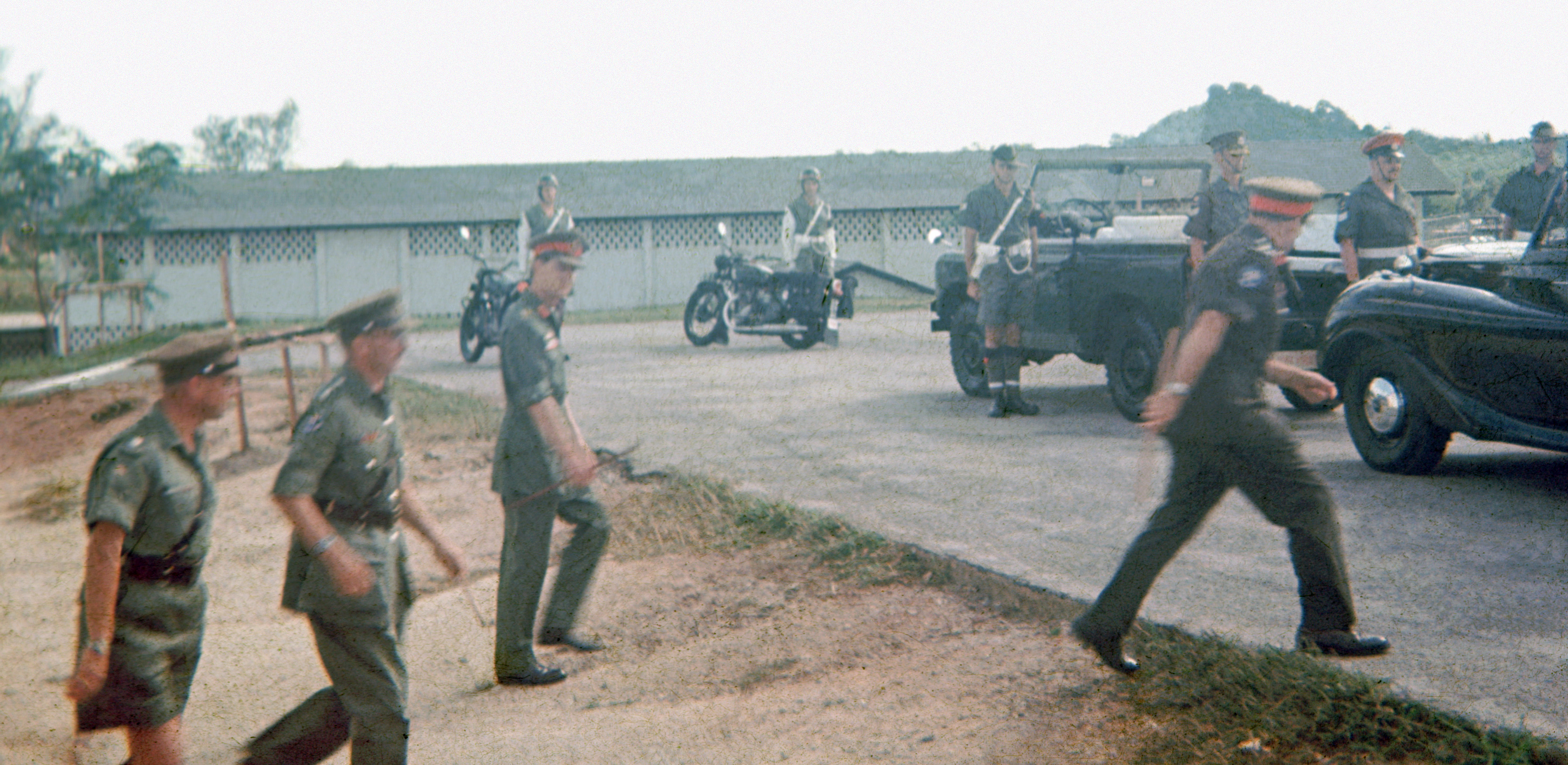 Photographed on the main parade ground at Terendak Garrison near Malacca in Malaysia. On the occasion of the visit of the Duke of Edinburgh to Terendak Garrison on 18th February, 1965. All the school children and families came to see Royalty. Prince Philip visited Terendak Army Base which was near the town on Malacca on the west coast of Malaysia. The army base was British run and Australian and New Zealand troops were also there. The base was handed over long ago and no foreign troops are in Malaysia now. This image is cropped from a large format 120mm transparency which was severely damaged. Needed a vast amount of restoration to save the image.